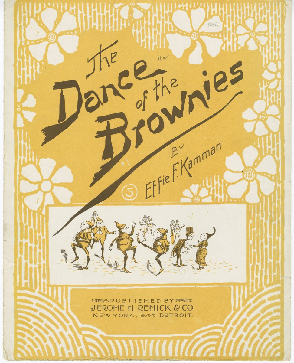 "The Dance of the Brownies" sheet music cover. See The Brownies